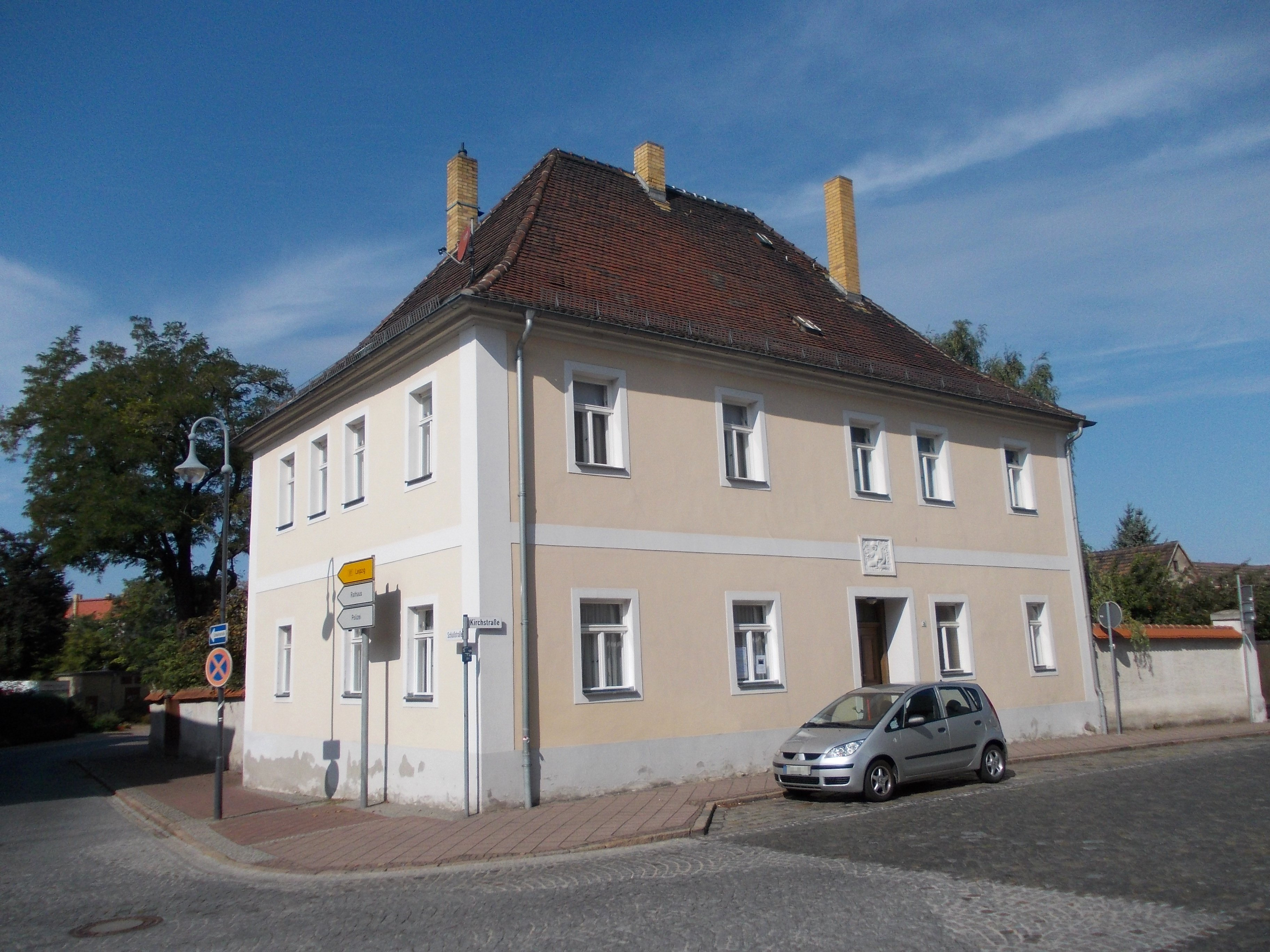 Rectory in Taucha (Nordsachsen district, Saxony)